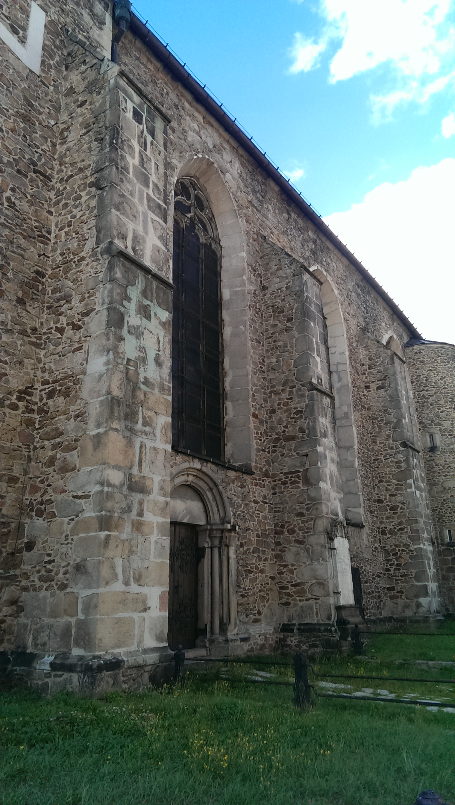 Jihlava, Church of Saint James the Elder, photo